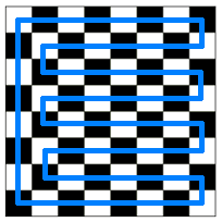 Chessboard with a simple tour. Made by Hagai Helman.